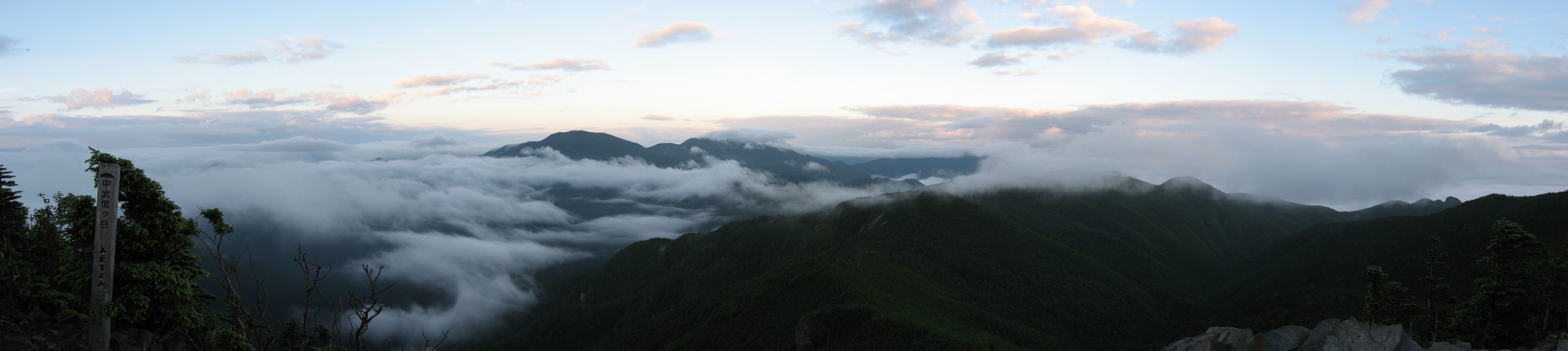 View from the top of Mount Kobushi in the Okuchichibu Mountains, Japan